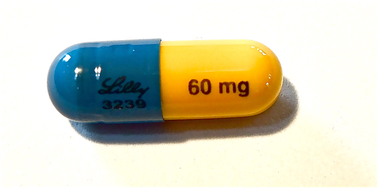 picture taken of an atomoxetine (Strattera®) 60 mg capsule.